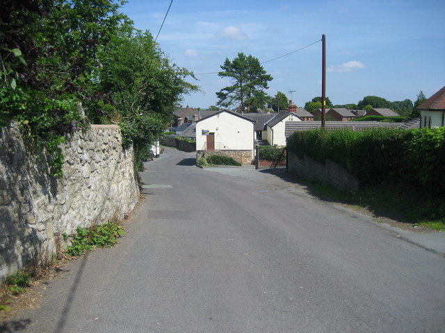 Bellan Lane, Trefonen Walking down the lane towards the post office, and the Barley Mow Inn.